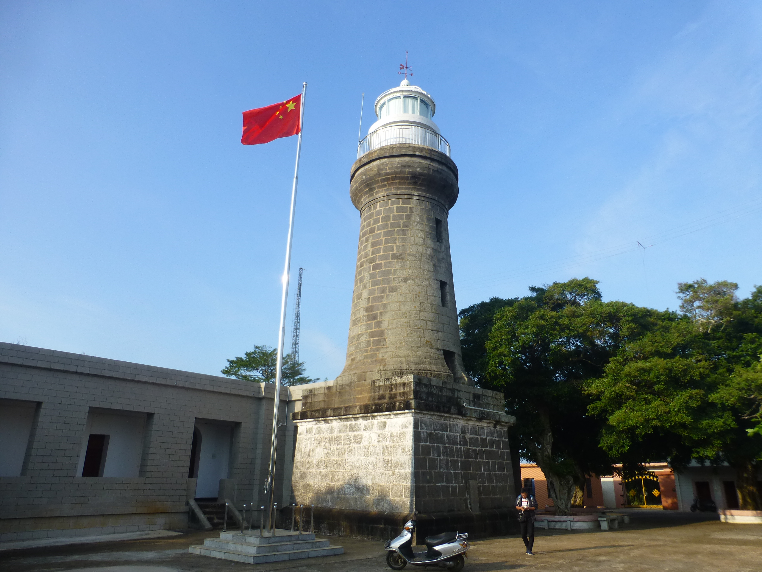 The Naozhou Lighthouse